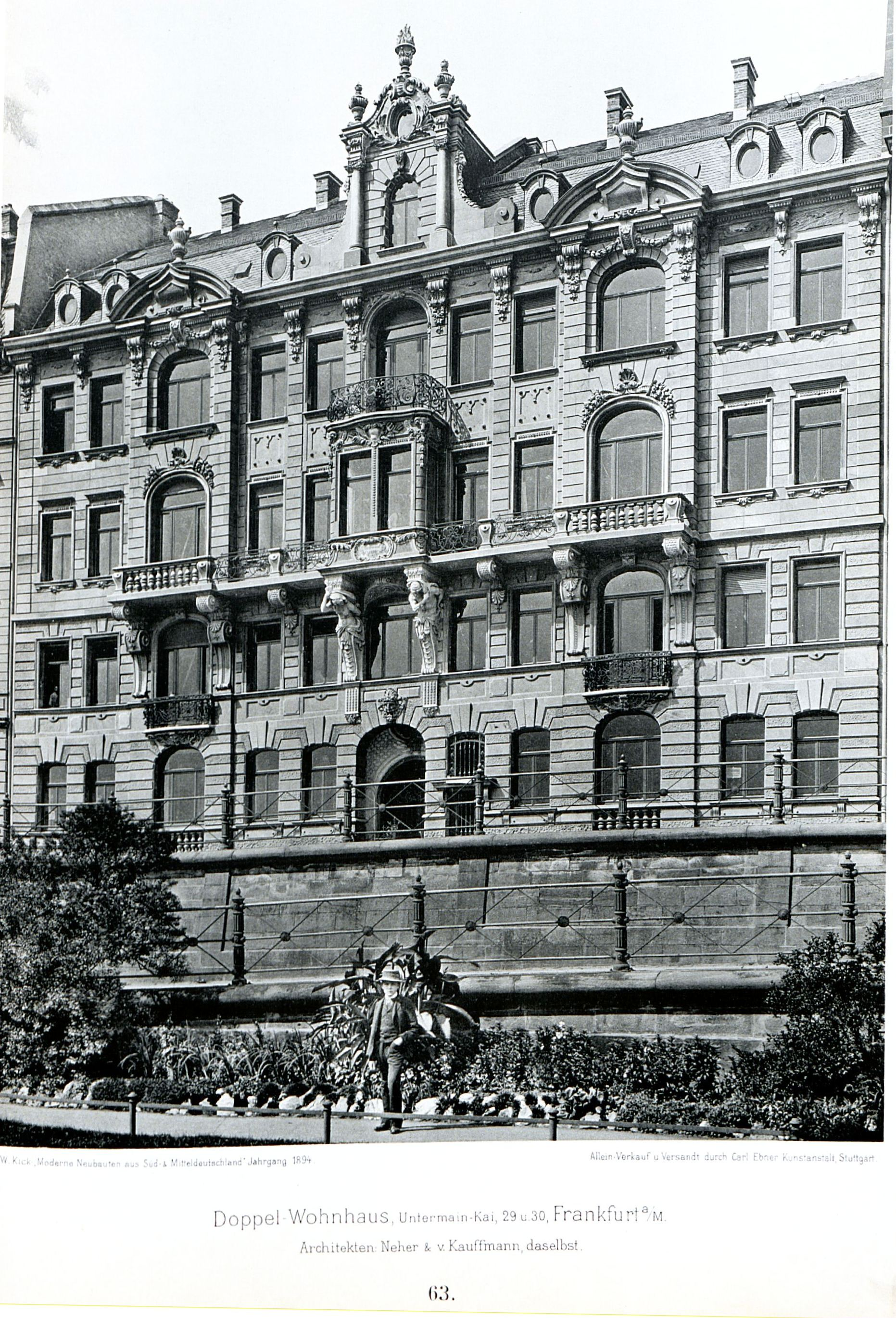 Doppel-Wohnhaus, Untermain-Kai, 29 und 30,Frankfurt am Main, Architekten Neher & v. Kauffmann aus Frankfurt am Main,Tafel 63, Kick Jahrgang I